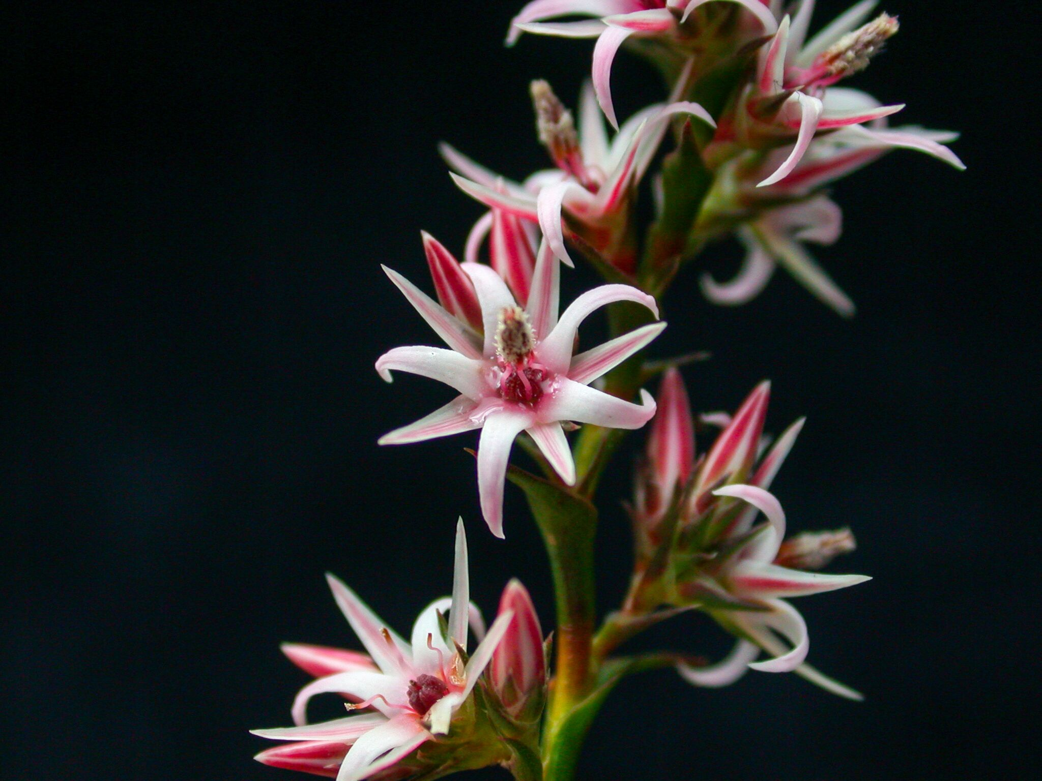 The pink star-shaped flowers of Sprengelia incarnata. Photo taken by Will De Angelis at Mt Field, Tasmania